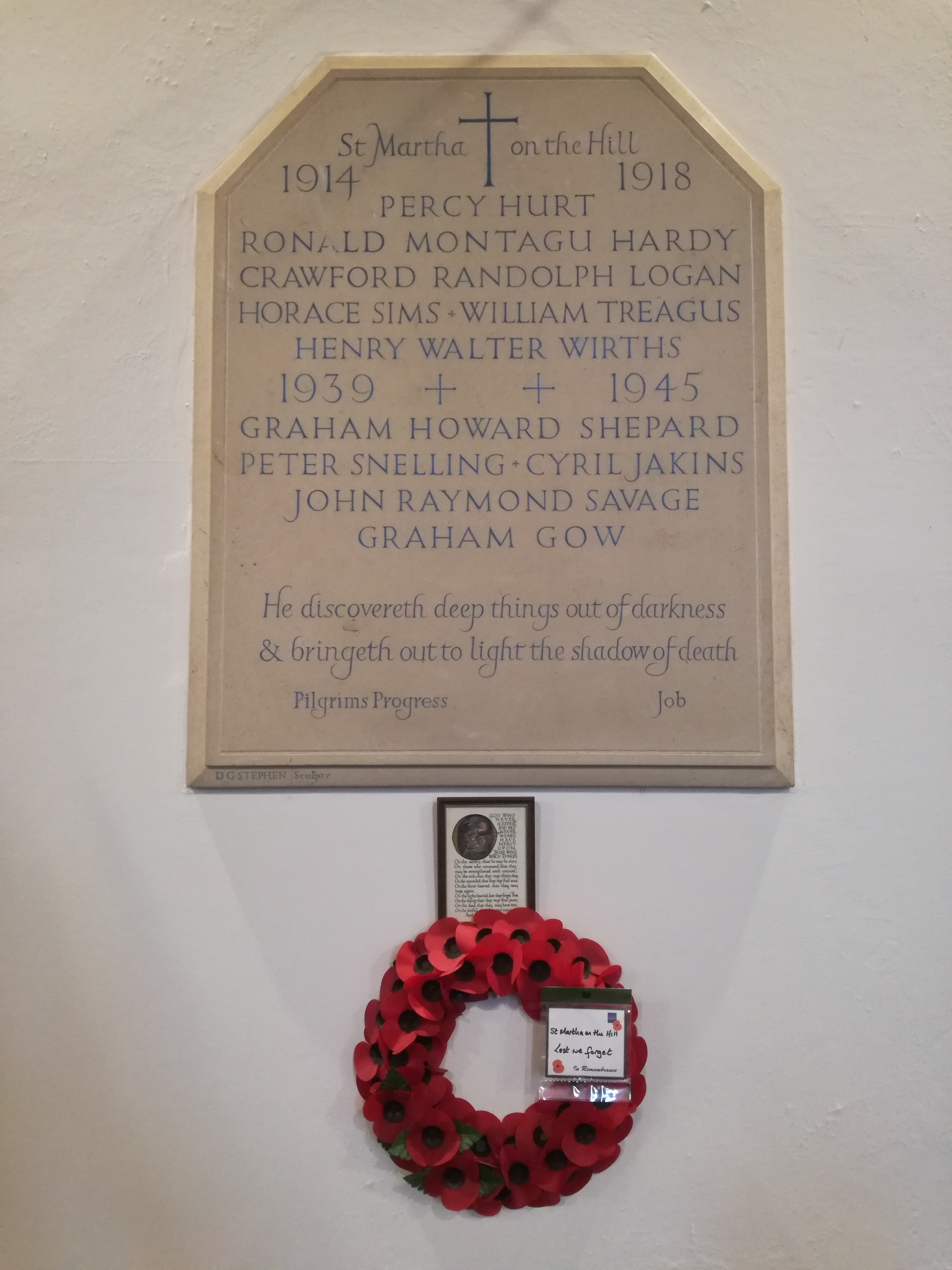 War memorial at St Martha-on-the-Hill, Surrey